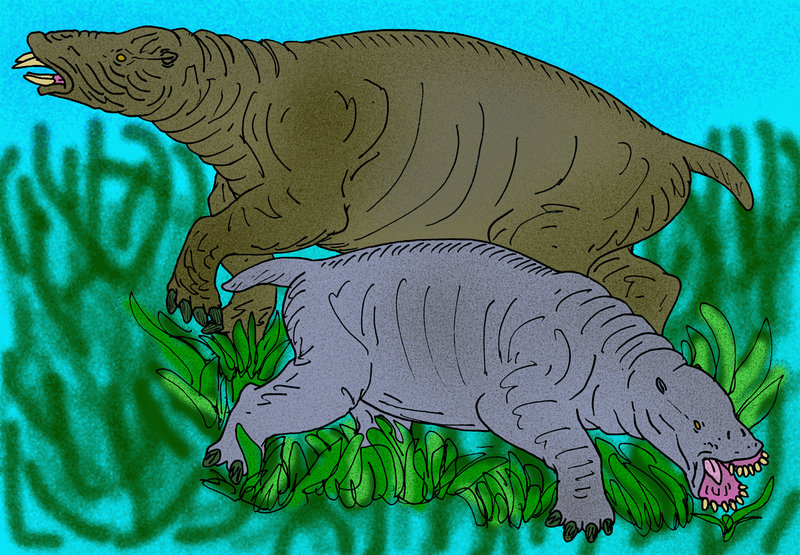 The Early Miocene desmostylians Desmostylus and Paleoparadoxia (C) Stanton F. Fink